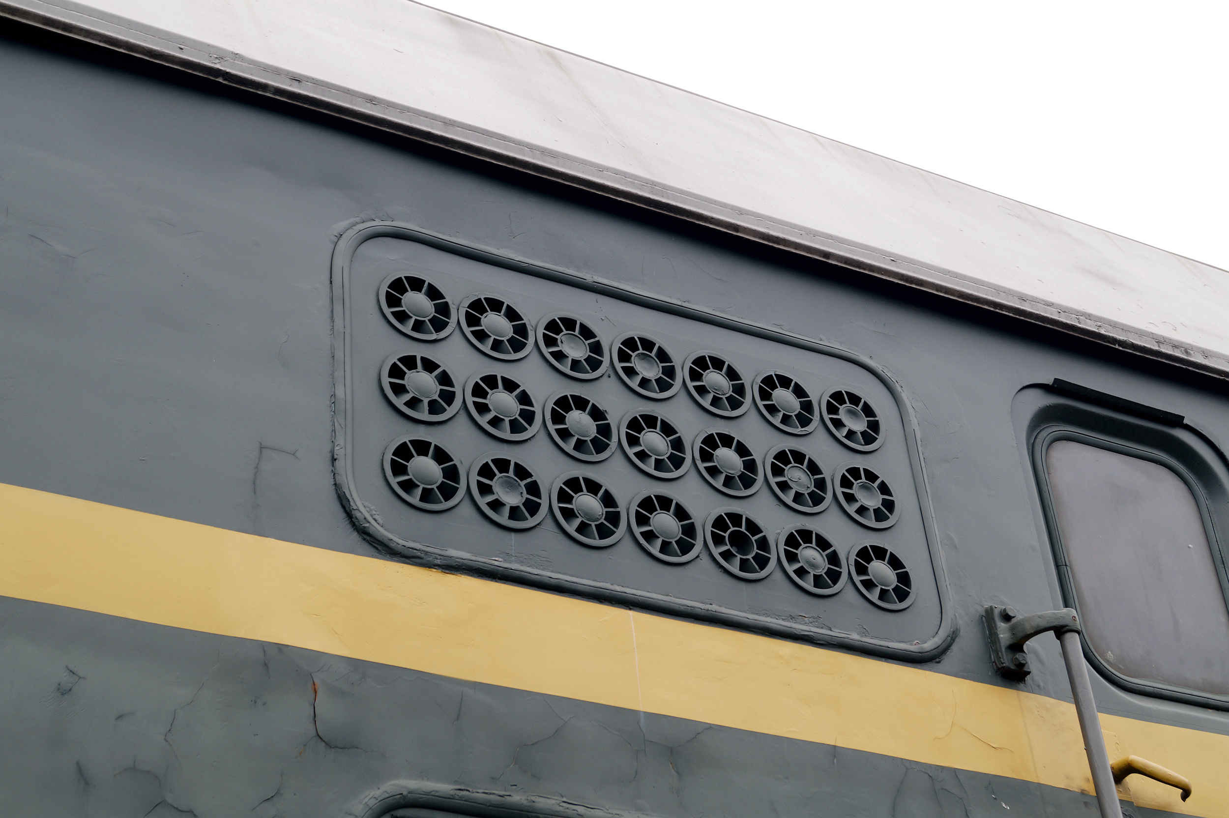 The primary air filter on a China Railways DF4B diesel locomotive